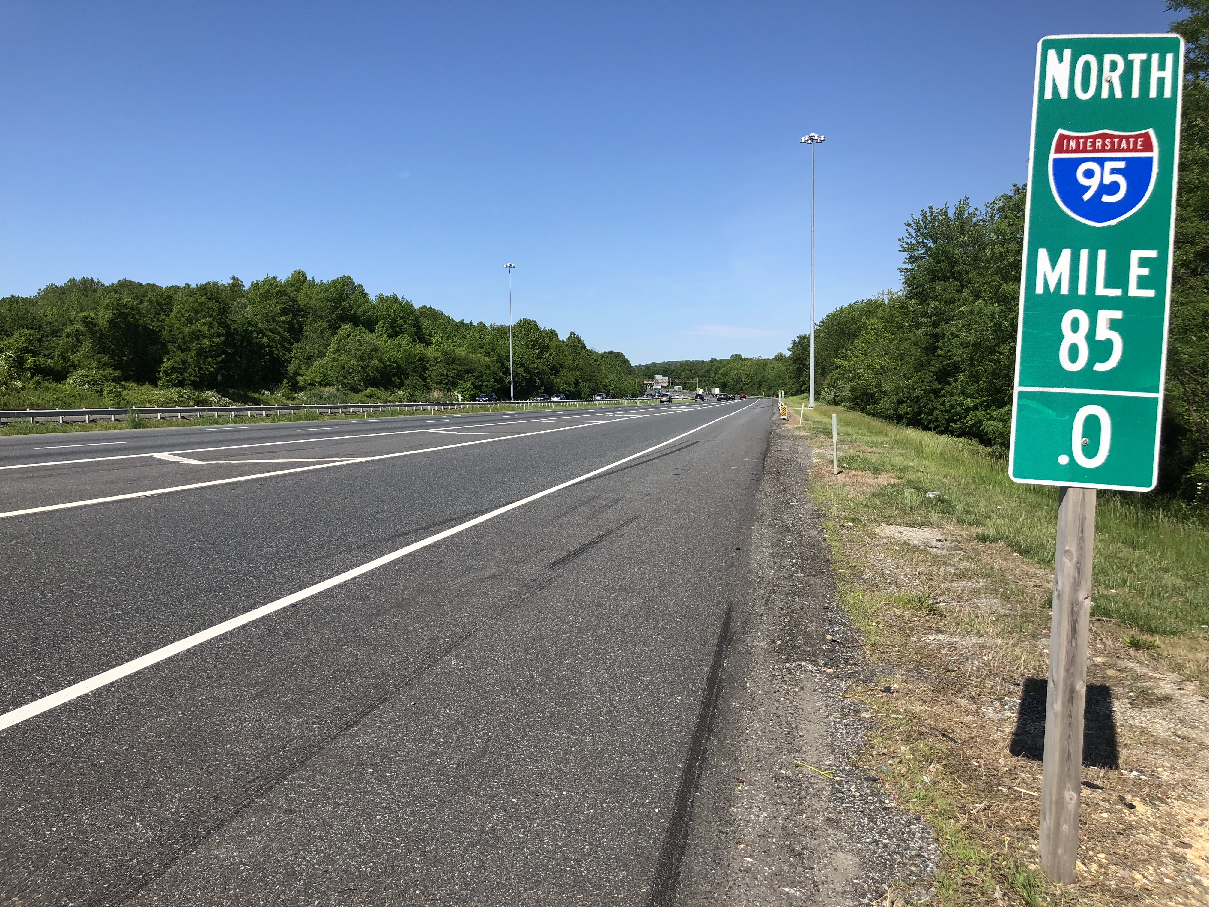 View north along Interstate 95 (John F. Kennedy Memorial Highway) just north of Exit 85 in Aberdeen, Harford County, Maryland